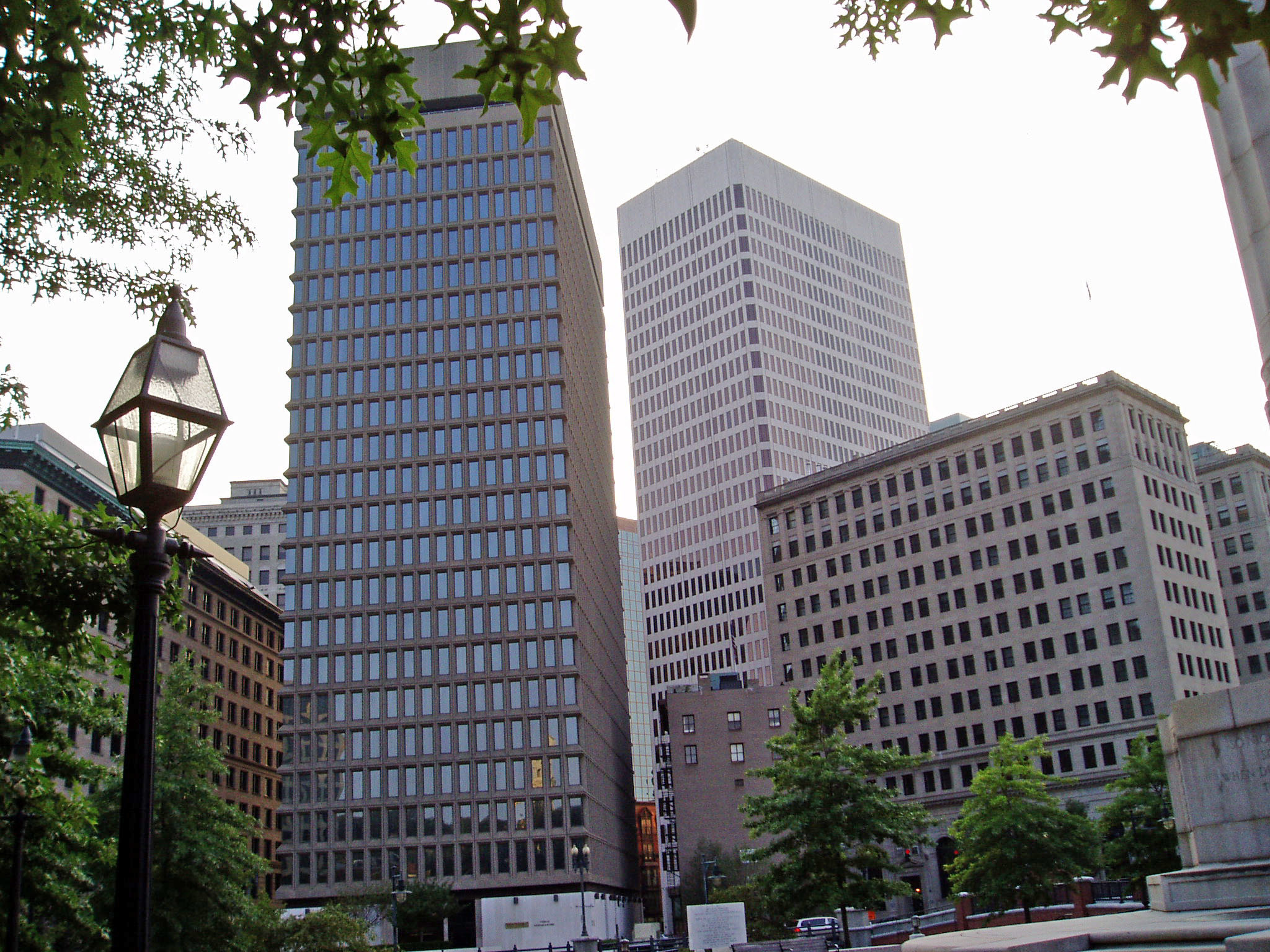 Textron's world headquarters at the Textron Tower, next to One Financial Plaza primarily used by Sovereign Bank and the Rhode Island Hospital Trust building in use by Rhode Island School of Design for dorms.